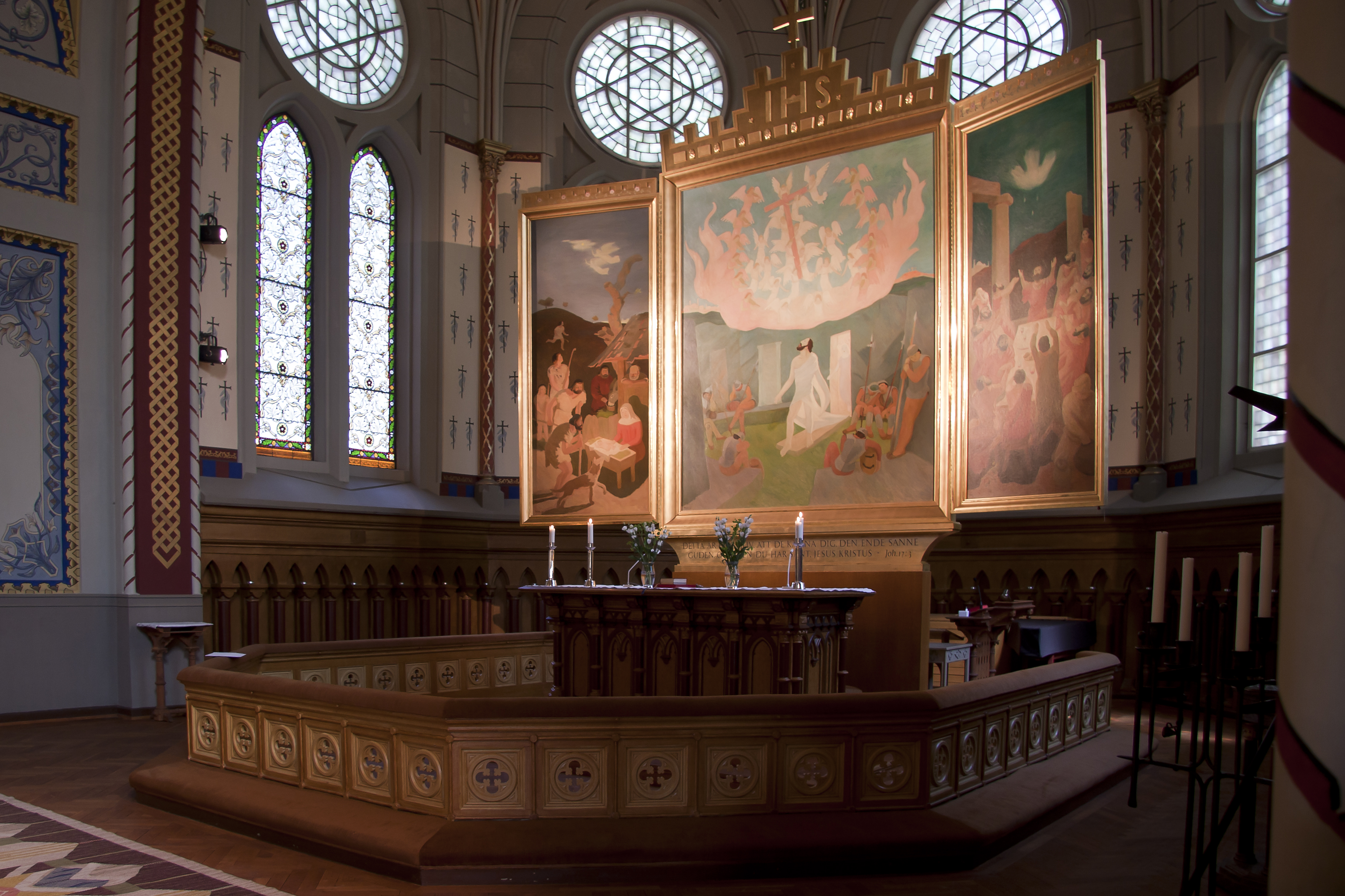 The sanctuary of Örgryte nya kyrka (New Church of Örgryte) in Gothenburg, Sweden.